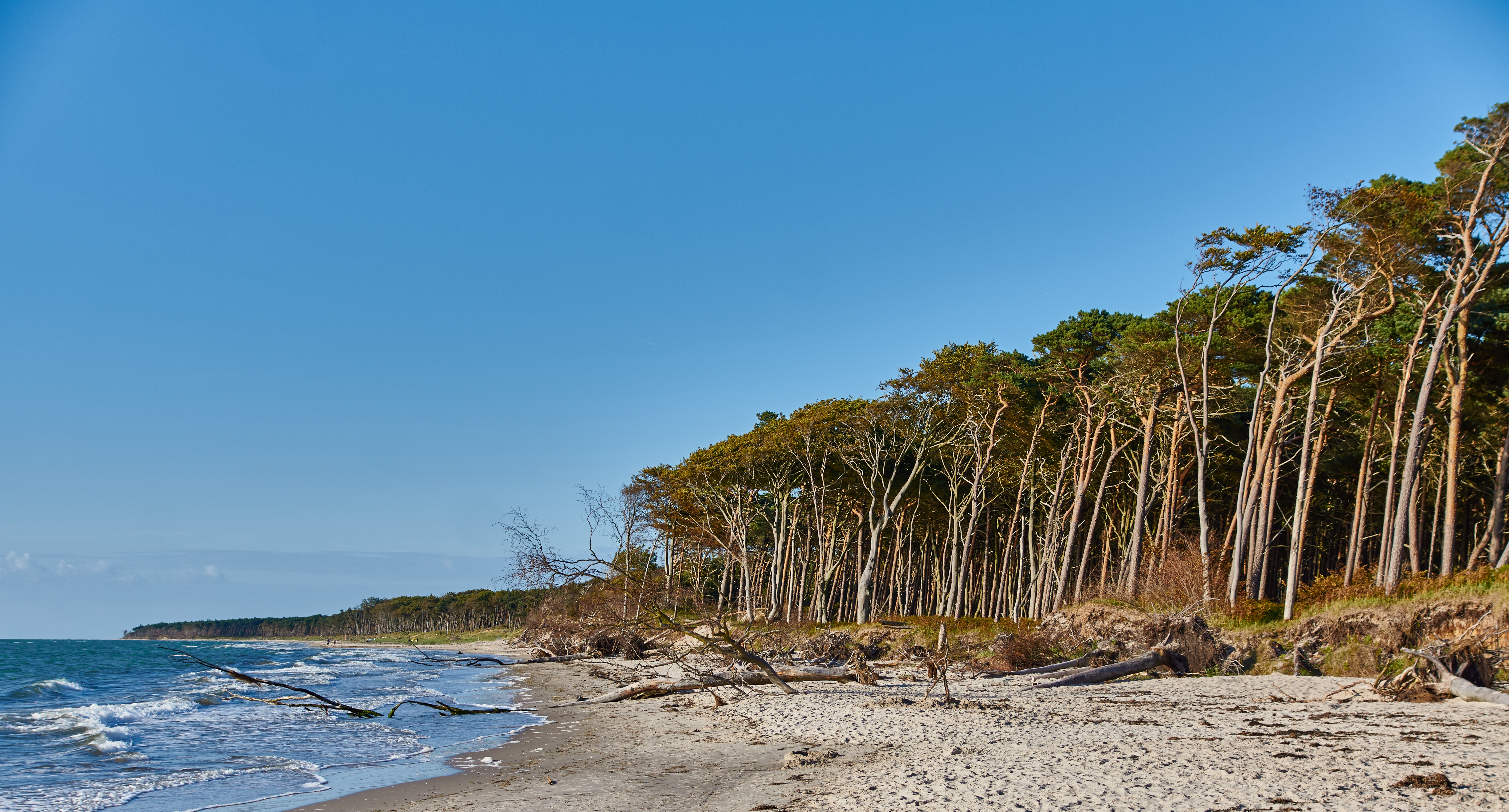 Darß Forest is a wooded region on the western coast of Darß peninsula on Germany's Baltic coast in Mecklenburg-Western Pomerania, Germany. It is part of Western Pomerania Lagoon Area National Park.